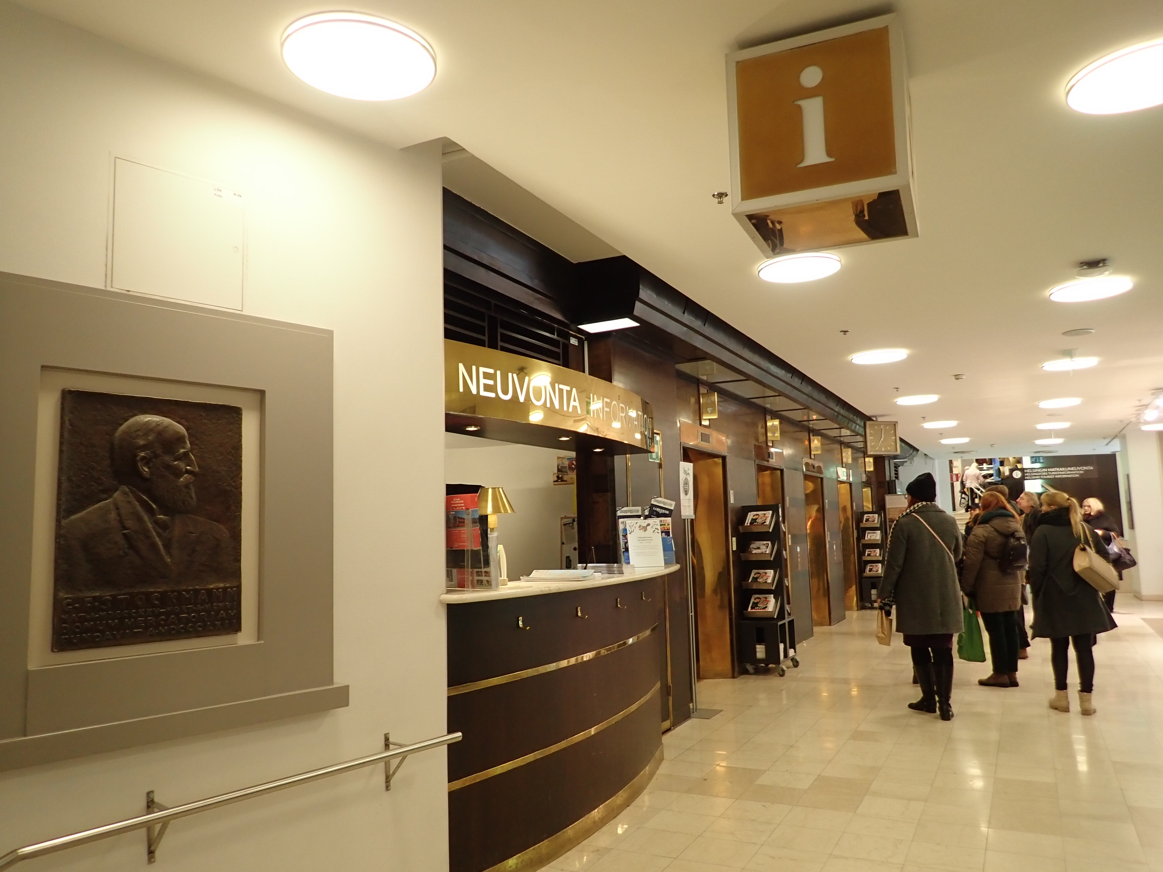 Georg Franz Stockmann - a commemorative plaque by the information counter at the Stockmann department store in Helsinki, December 2018.